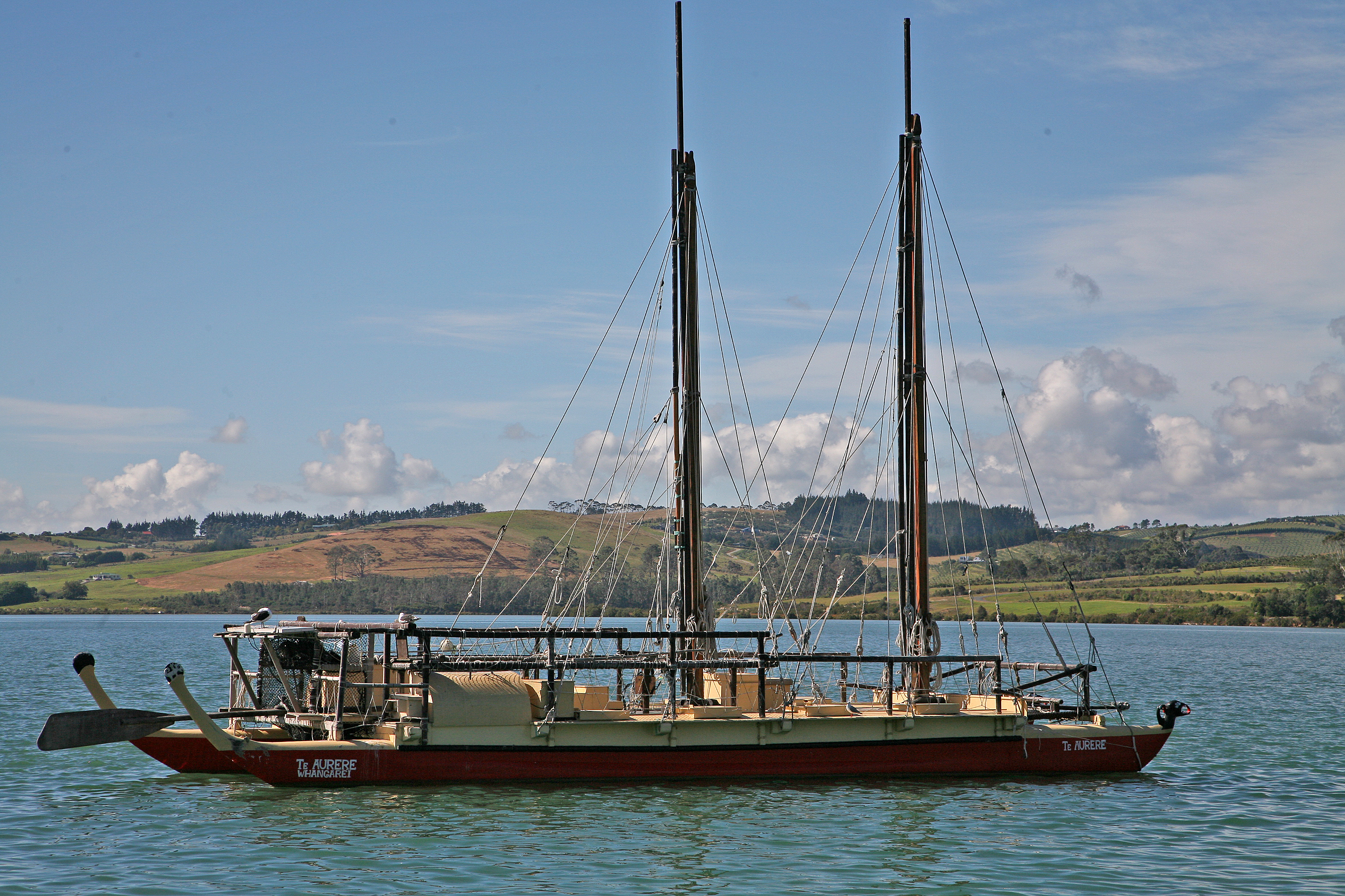 Te Aurere, a traditional double hull canoe (Waka Hourua) of the Maoris in New Zealand. The waka has 2 masts and is about 17 meters long and 5 meters wide. Seen in Mangonui, a place on the North Island of New Zealand.